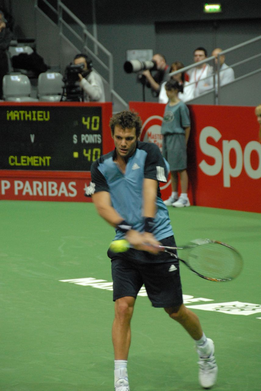 Paul-Henri Mathieu at the 2008 Masters France tennis exhibition